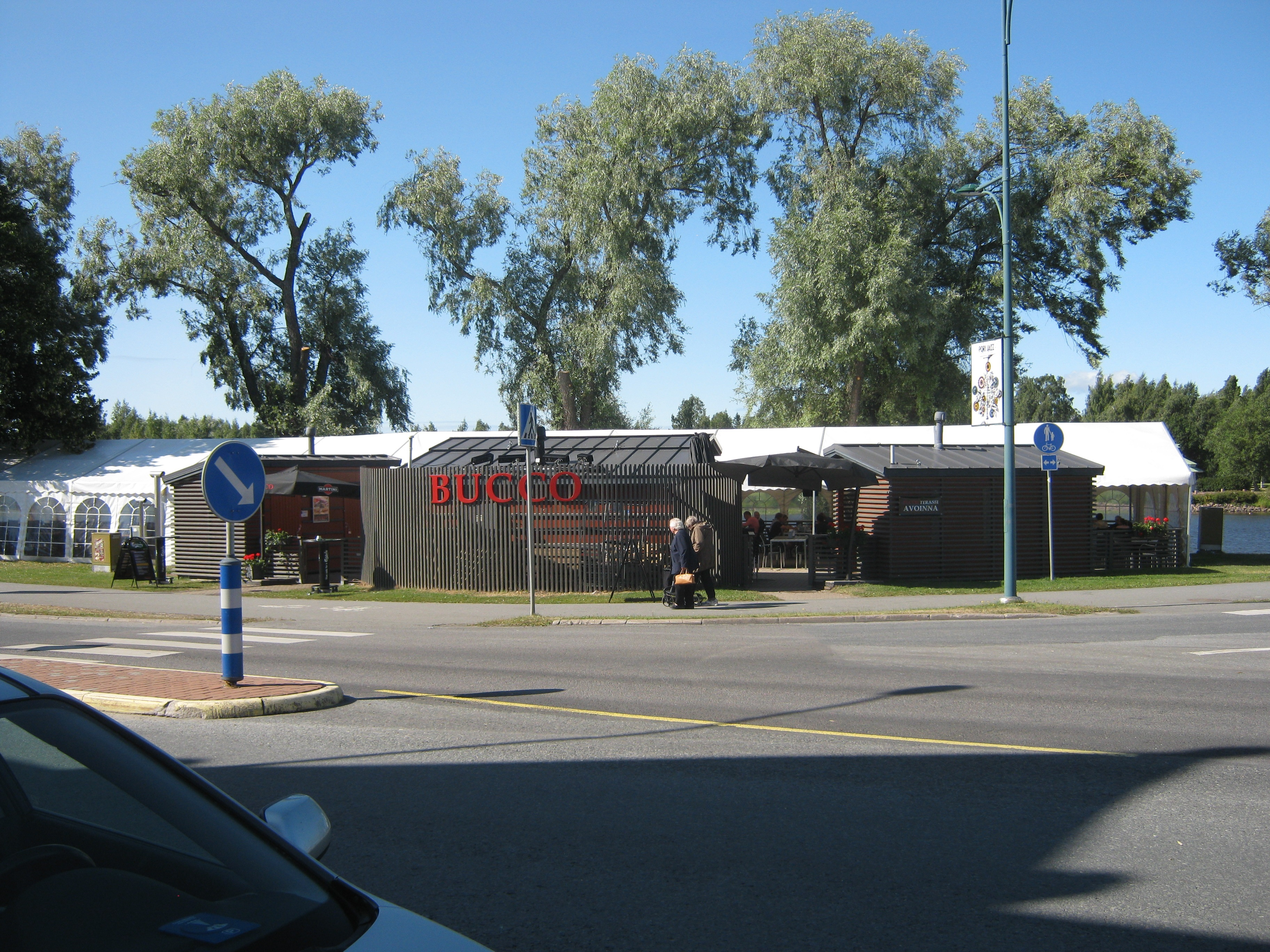 The terrace of restaurant Bucco, Pori, Finland.